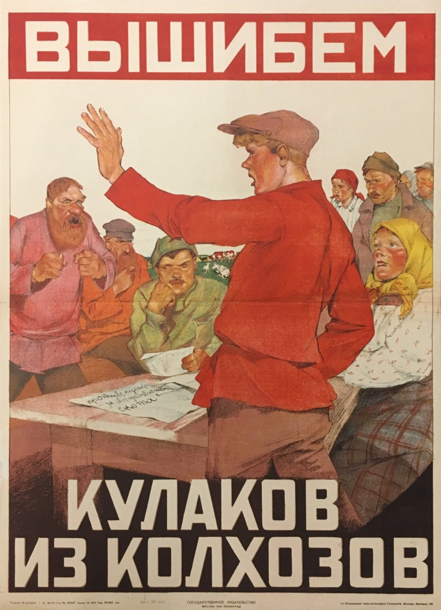 Soviet propaganda: We will keep out Kulaks from the collectives.